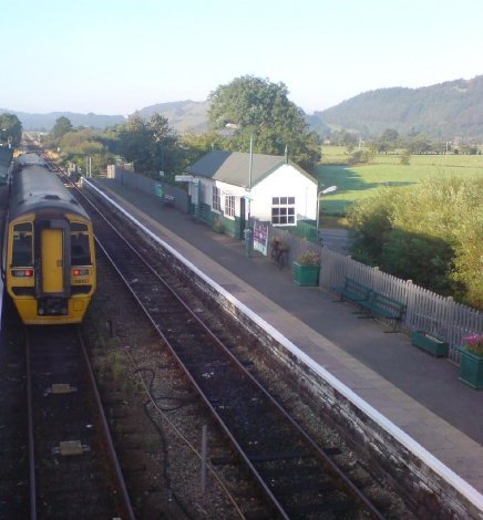 An Arriva trains wales class 158 arrives at Machynlleth on a service to Aberystwyth.